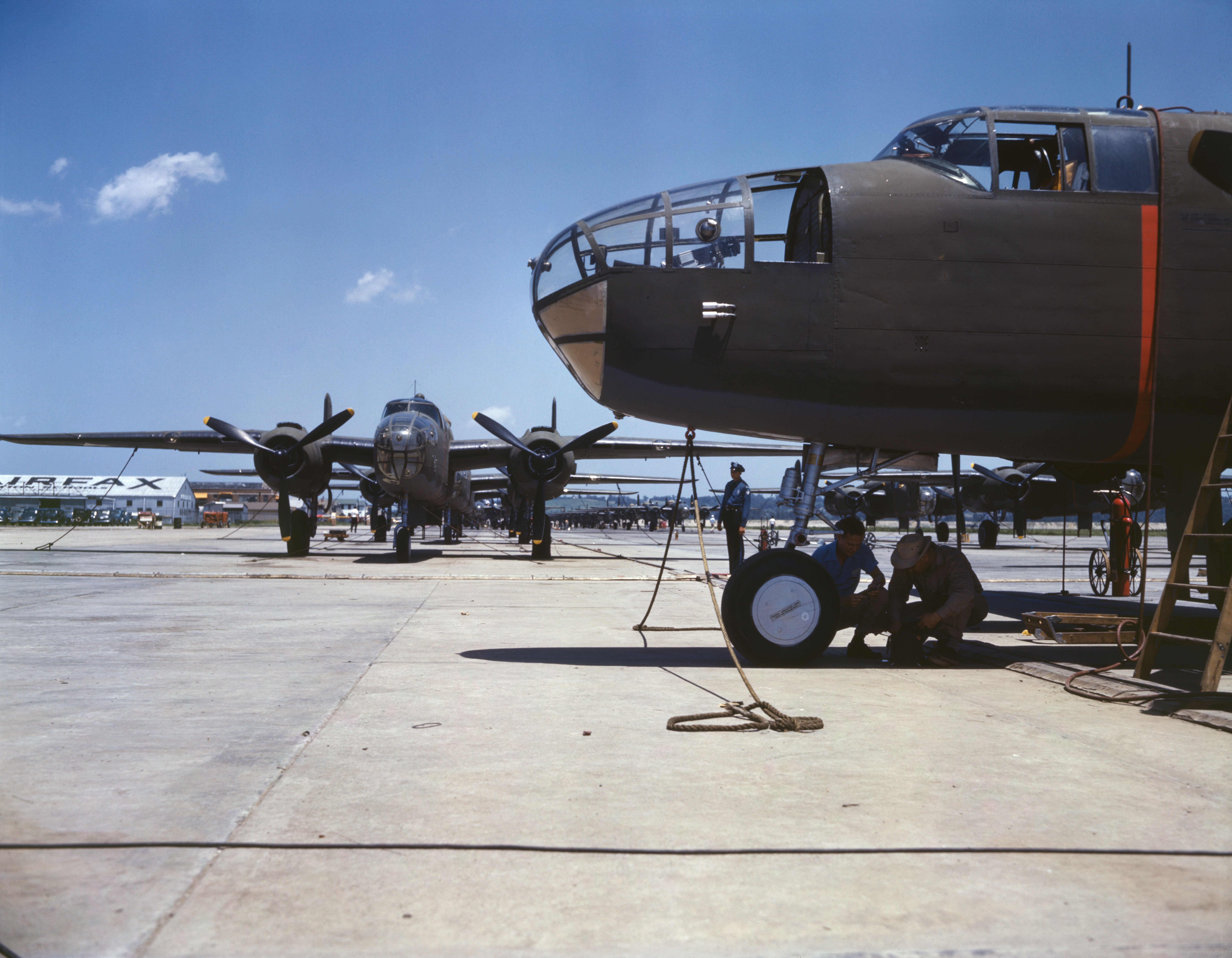 New B-25 bombers lined up for final inspection and tests at the flying field of the North American Aviation aircraft plant, in Inglewood, Calif.